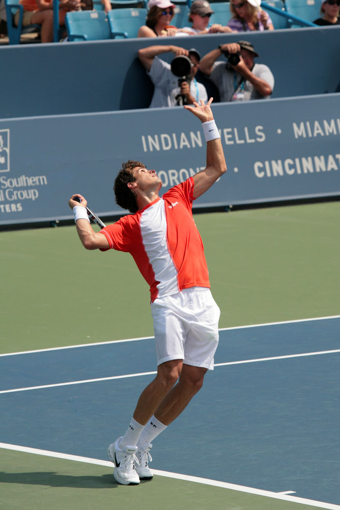 Tommy Haas serves Rafael Nadal vs Tommy Haas 2006 Western & Southern Financial Group Masters Cincinnati, Ohio